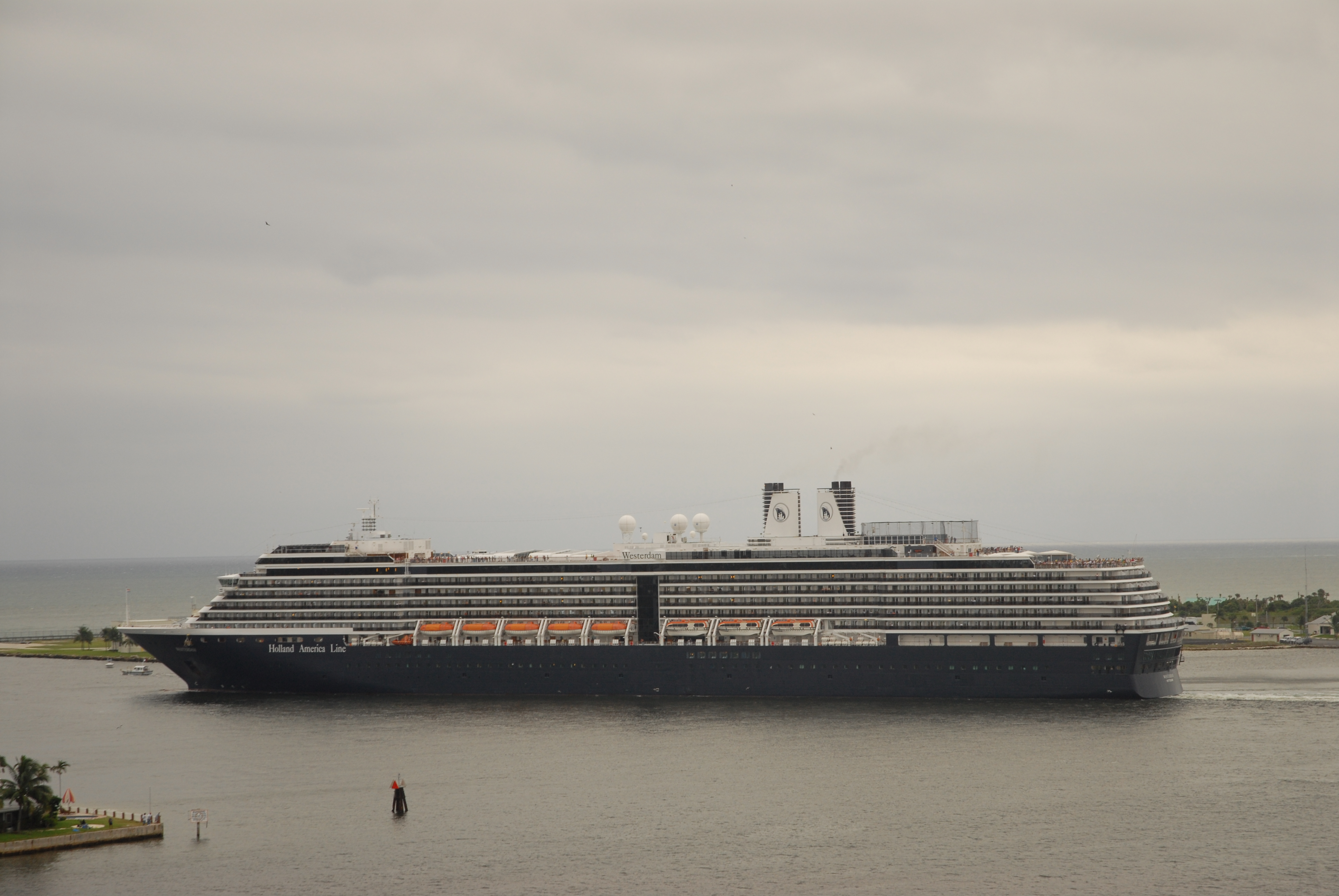 The MS Westerdam of the Holland America Line